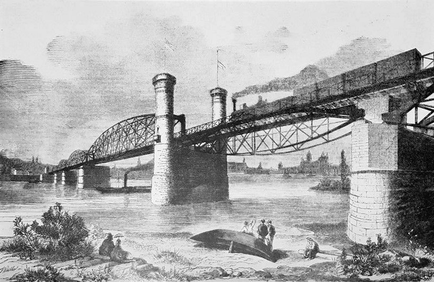 Old "Südbrücke" (South Bridge) between Mainz and Gustavsburg (today: Ginsheim-Gustavsburg)